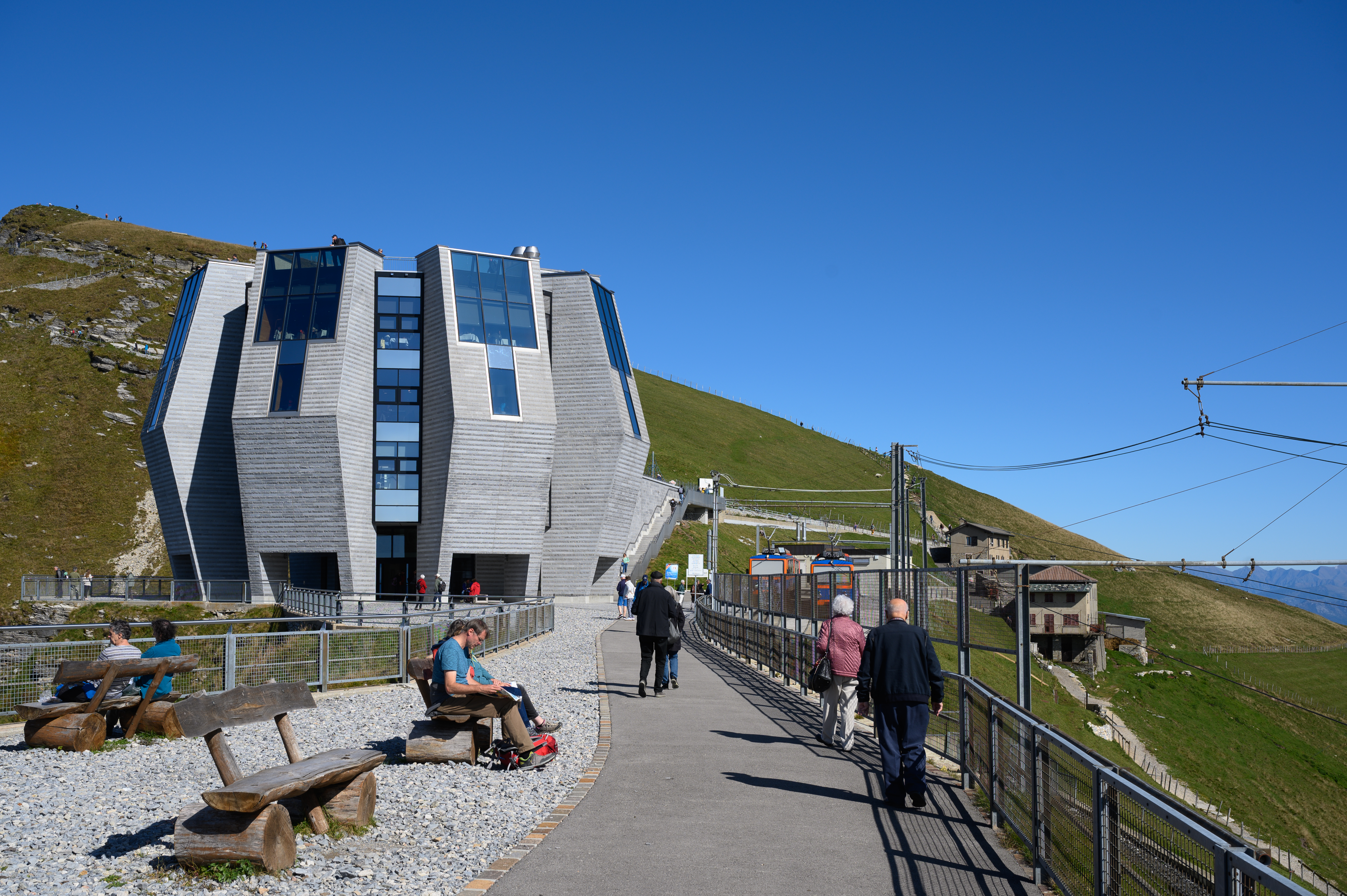 Fiore di Petra on Monte Generoso Ticino Switzerland